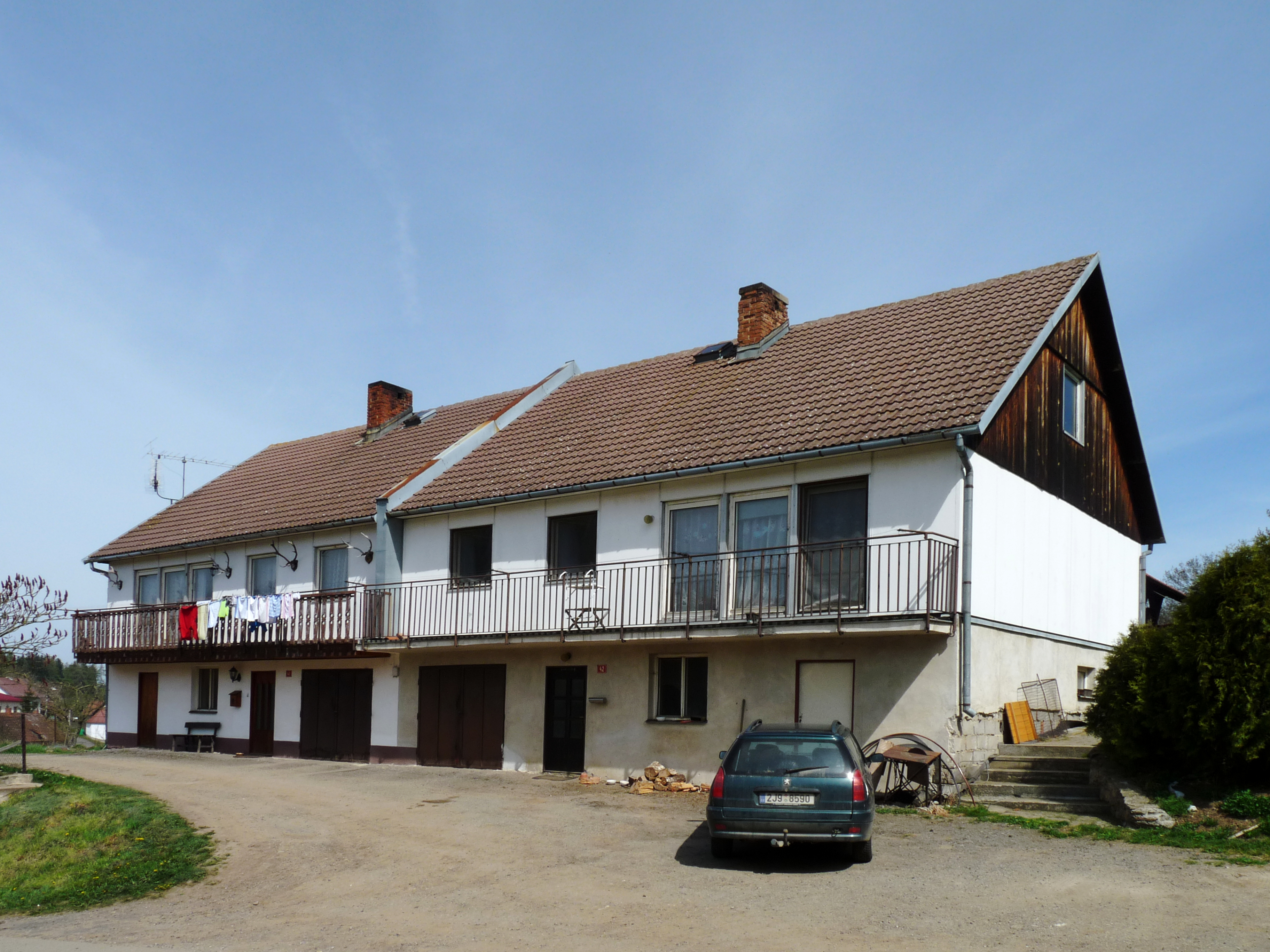 House No 42 in the municipality of Útěchovičky, Pelhřimov District, Vysočina Region, Czech Republic.